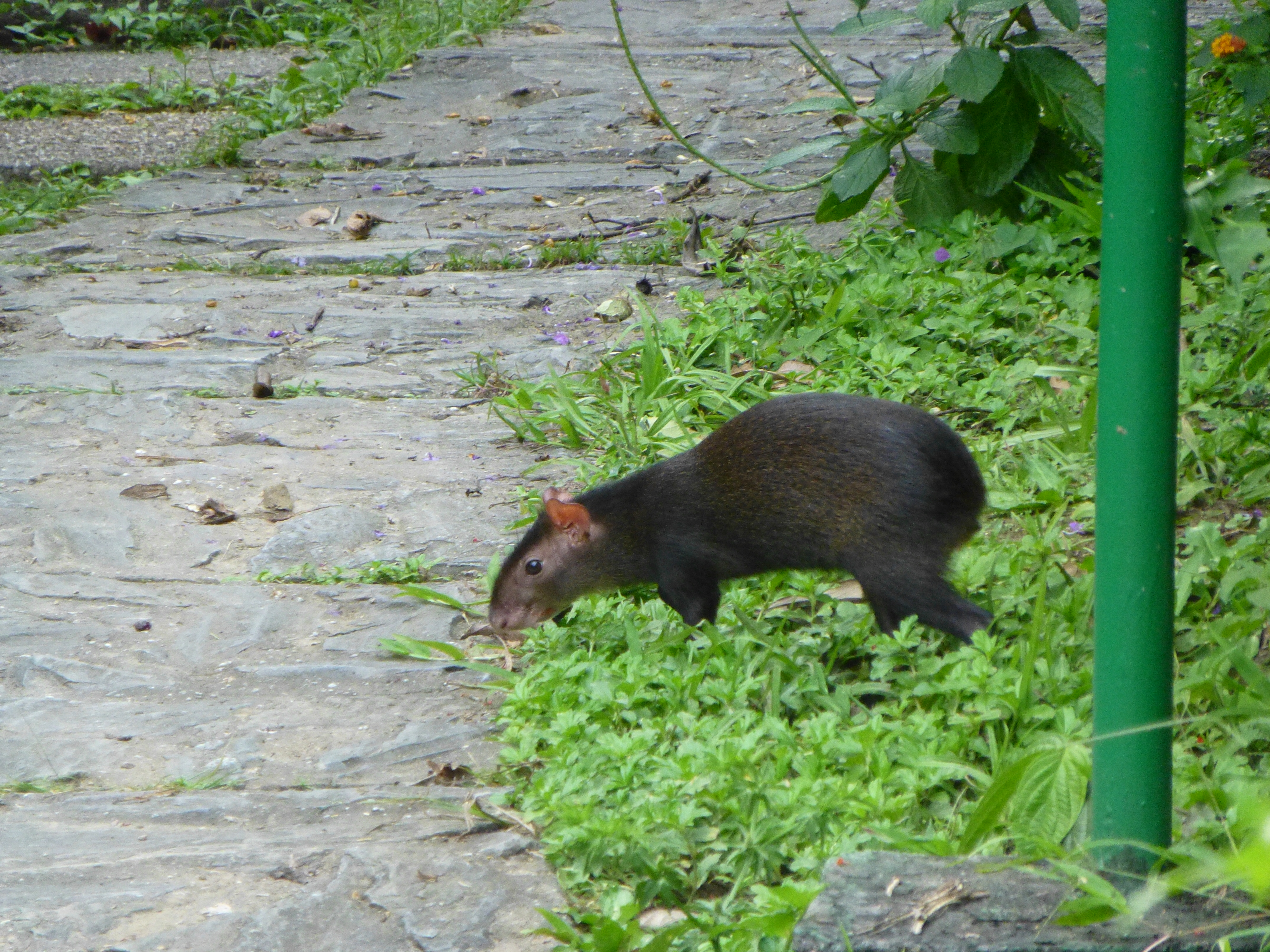 Agouti, Asa Wright Nature Centre, Trinidad.